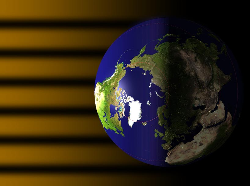 digital model of summer solstice seen from space over the arctic. Orthographic projection.